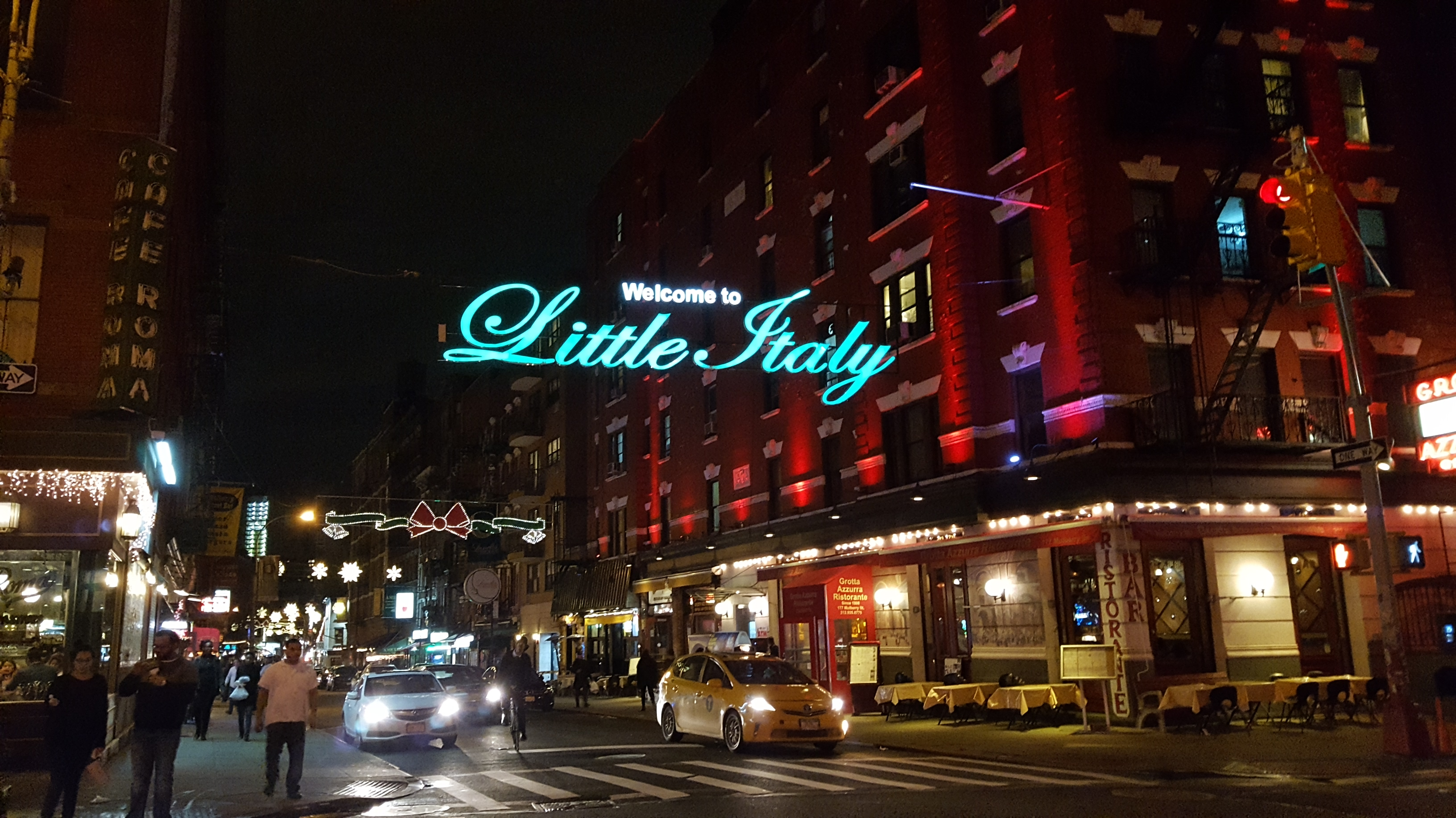 This sign is found on Mulberry St, near Broome St, Little Italy.